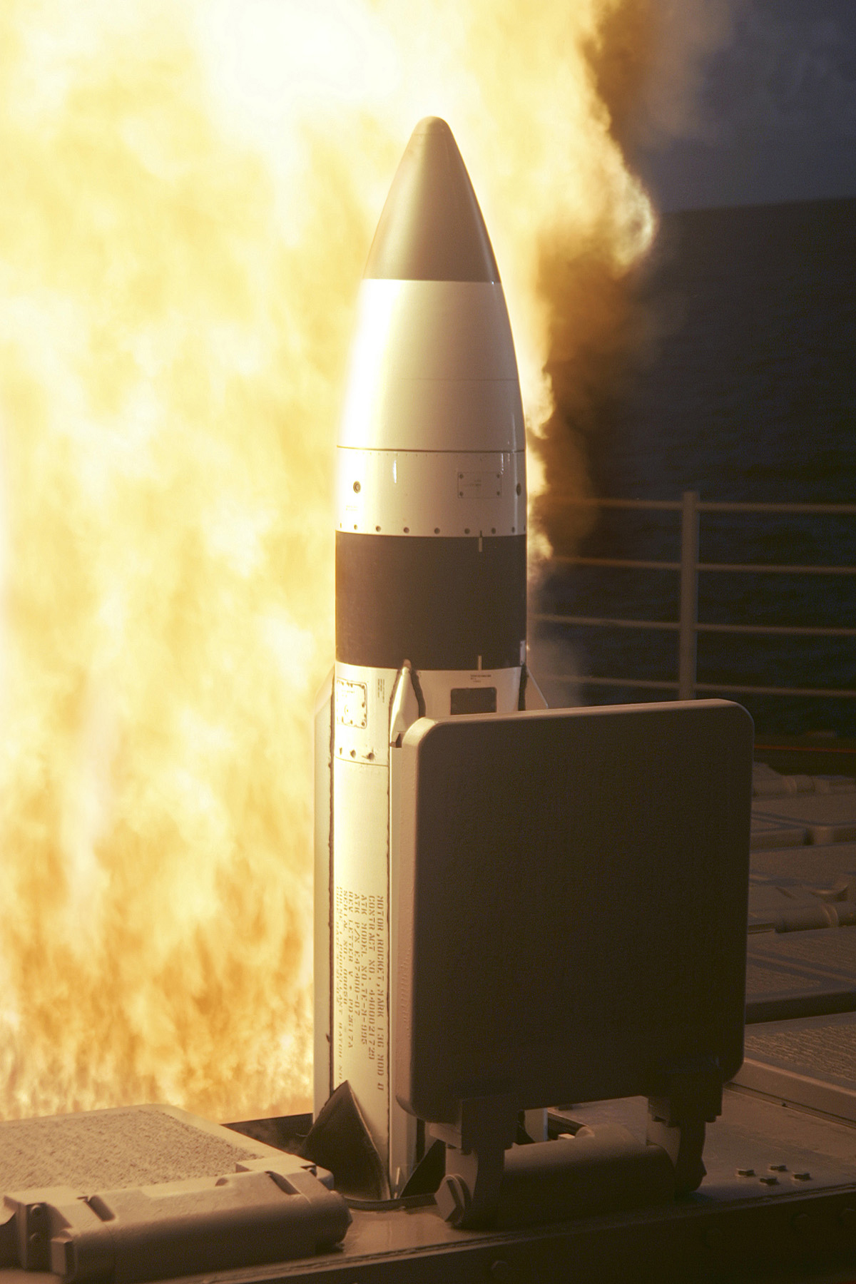 Standard Missile - 3 (SM-3) is launched from the Pearl Harbor-based Aegis cruiser USS Lake Erie (CG-70), during a joint Missile Defense Agency, U.S. Navy ballistic missile flight test today. Minutes later, the SM-3 intercepted a separating ballistic missile threat target, launched from the Pacific Missile Range Facility, Barking Sands, Kauai, Hawaii. The test was the sixth intercept, in seven flight tests, by the Aegis Ballistic Missile Defense, the maritime component of the "Hit-to-Kill" Ballistic Missile Defense System, being developed by the Missile Defense Agency. All previous Aegis Ballistic Missile Defense flight tests were against unitary (non-separating) targets.